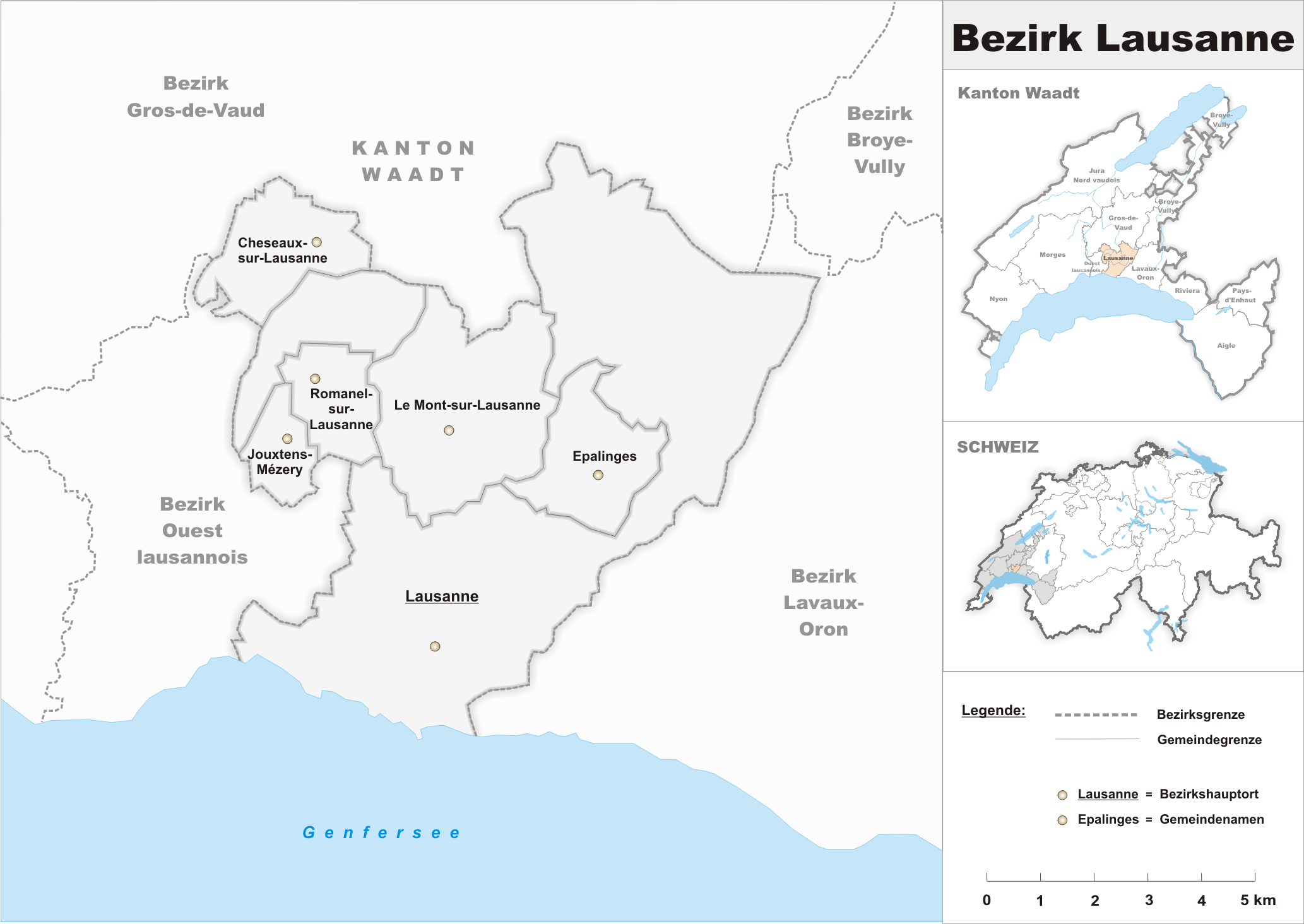 Municipalities in the district of Lausanne to 2008